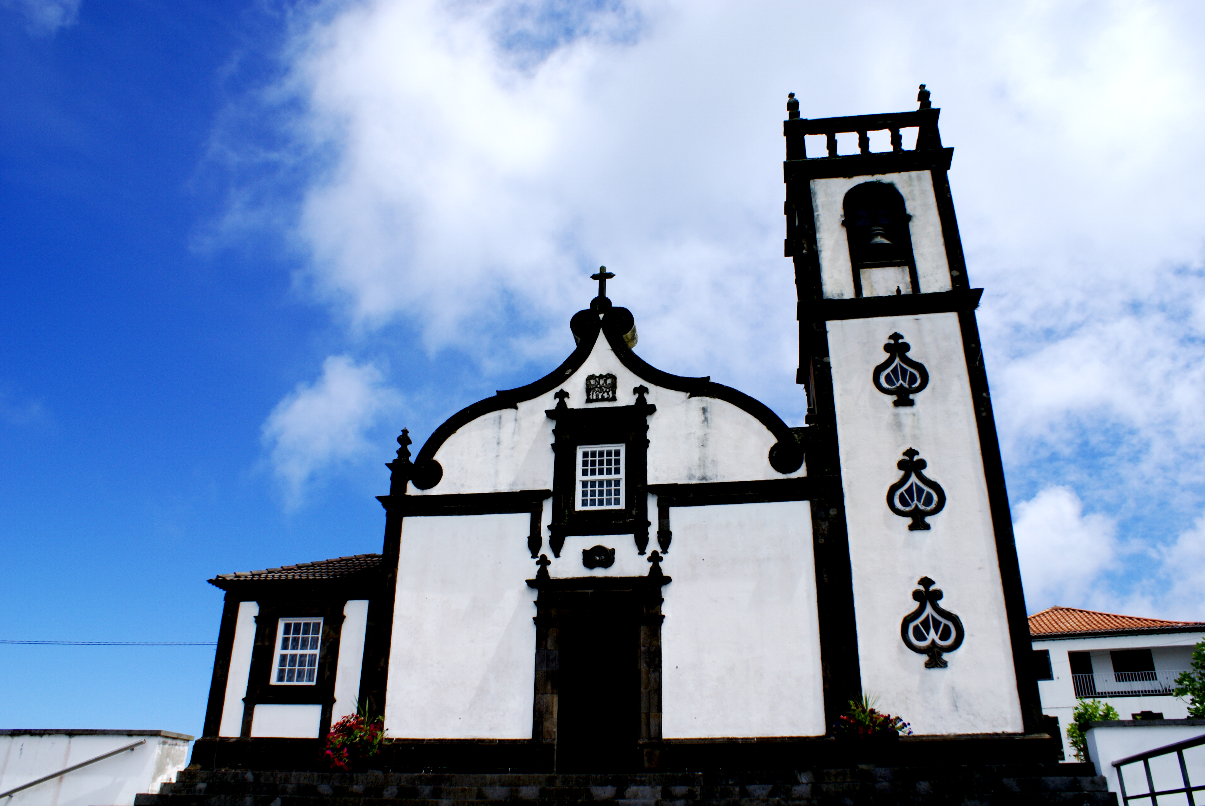 Front façade of Nossa Senhora do Amparo, Algarvia, Nordeste, São Miguel (Azores), Portugal